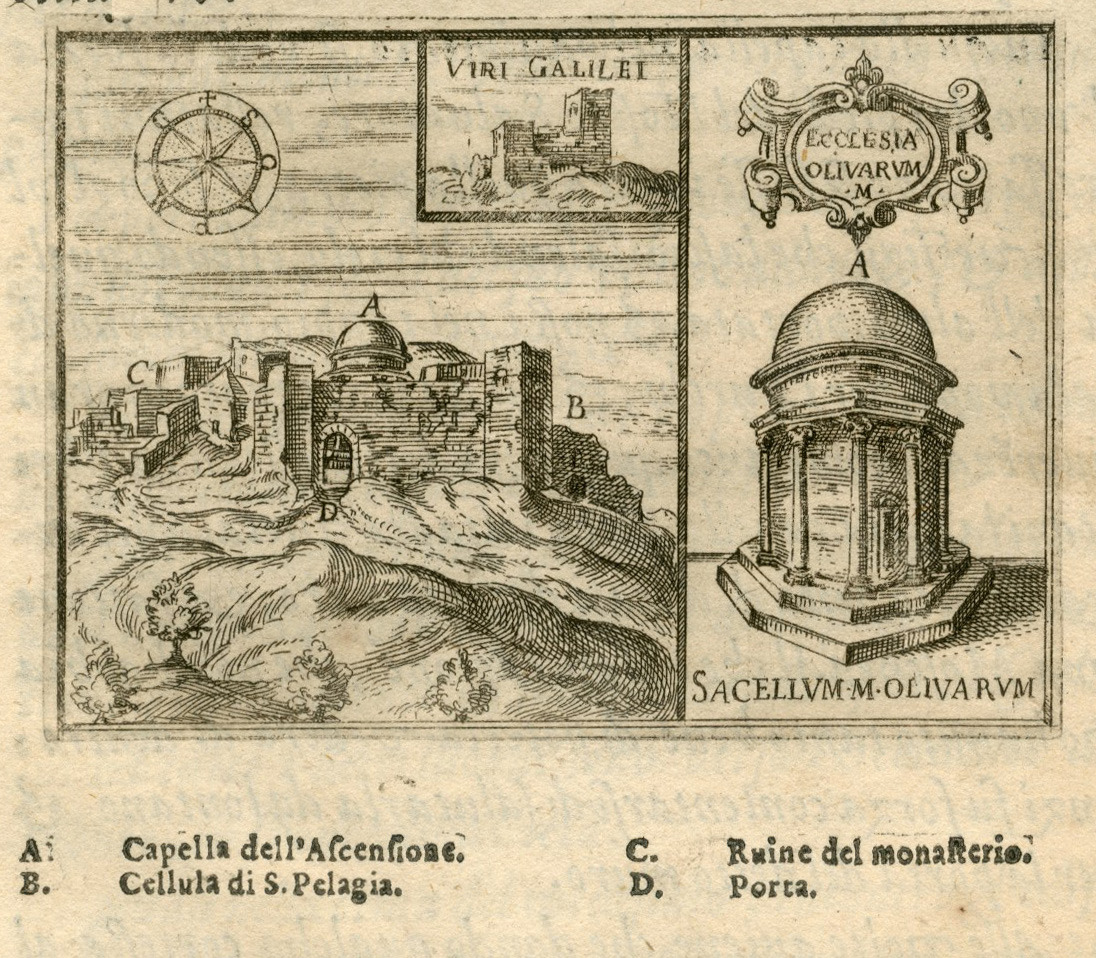 Jean Zuallart. Il devotissimo viaggio di Gerusalemme fatto, & descritto in sei libri dal Sig. Giovanni Zuallardo, Cavaliero del Santiss Sepolcro di N.S. l'anno 1586, Rome, F. Zanetti & Gia Ruffinelli, MDLXXXVII (1587)